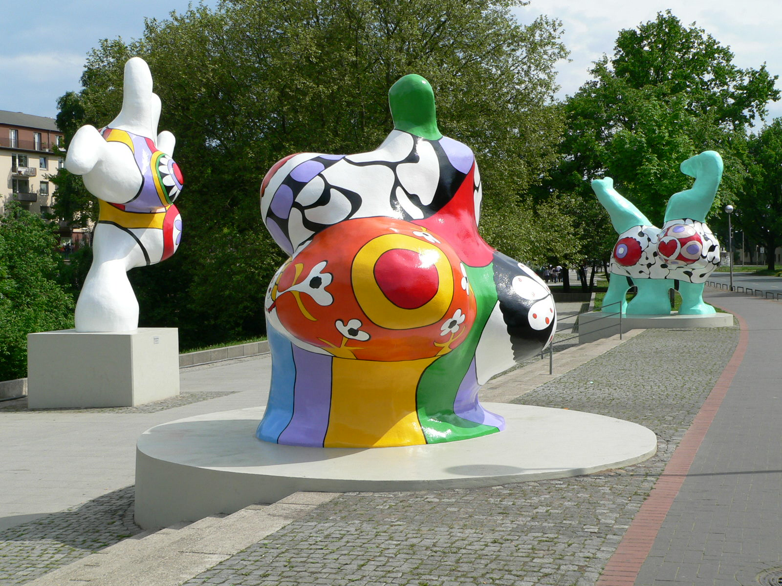 Hannover, Germany, Niki de Saint Phalle: Nanas